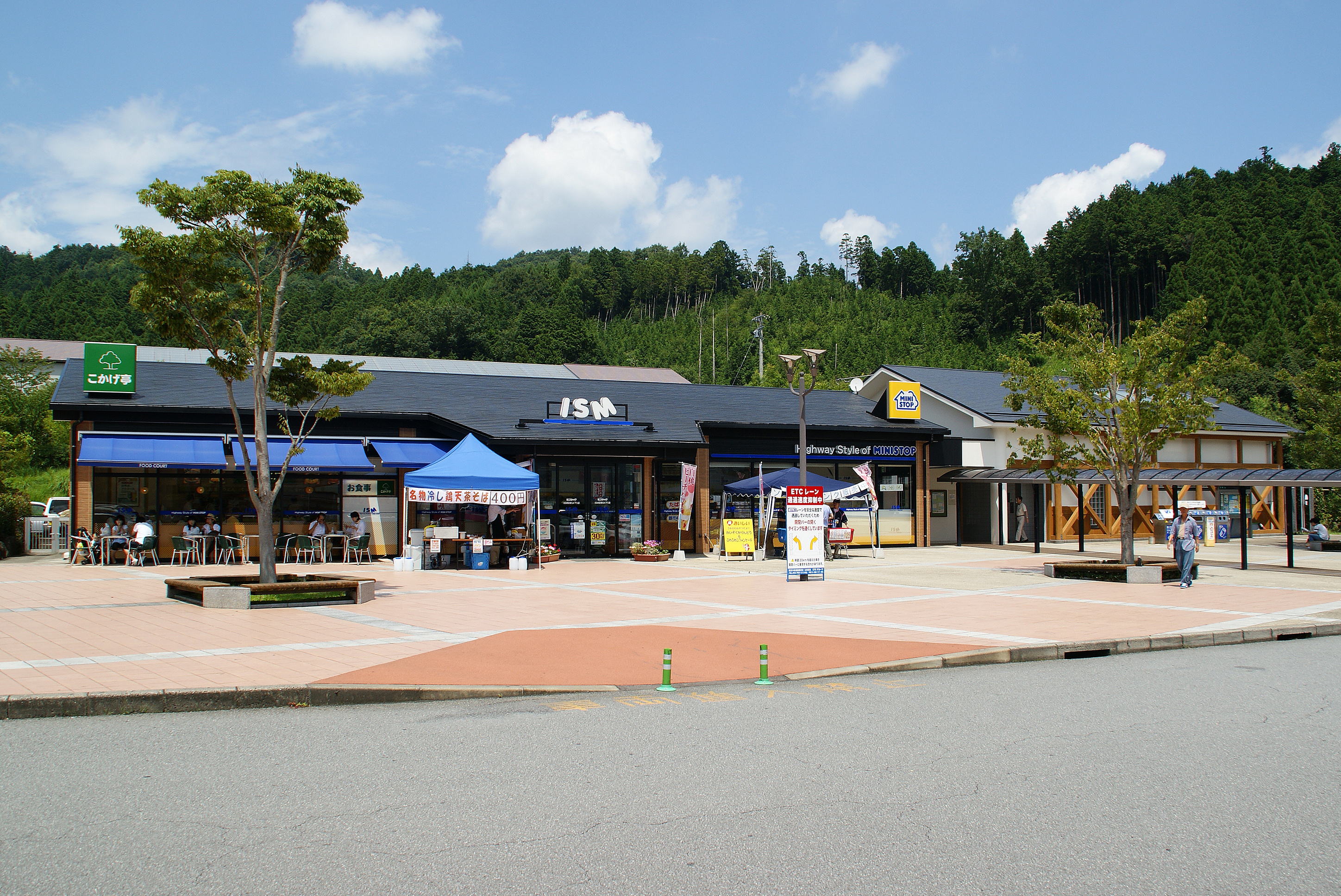 Oita Expressway, Kusu Service Area.(Kusu Town, Oita Prefecture, Japan)